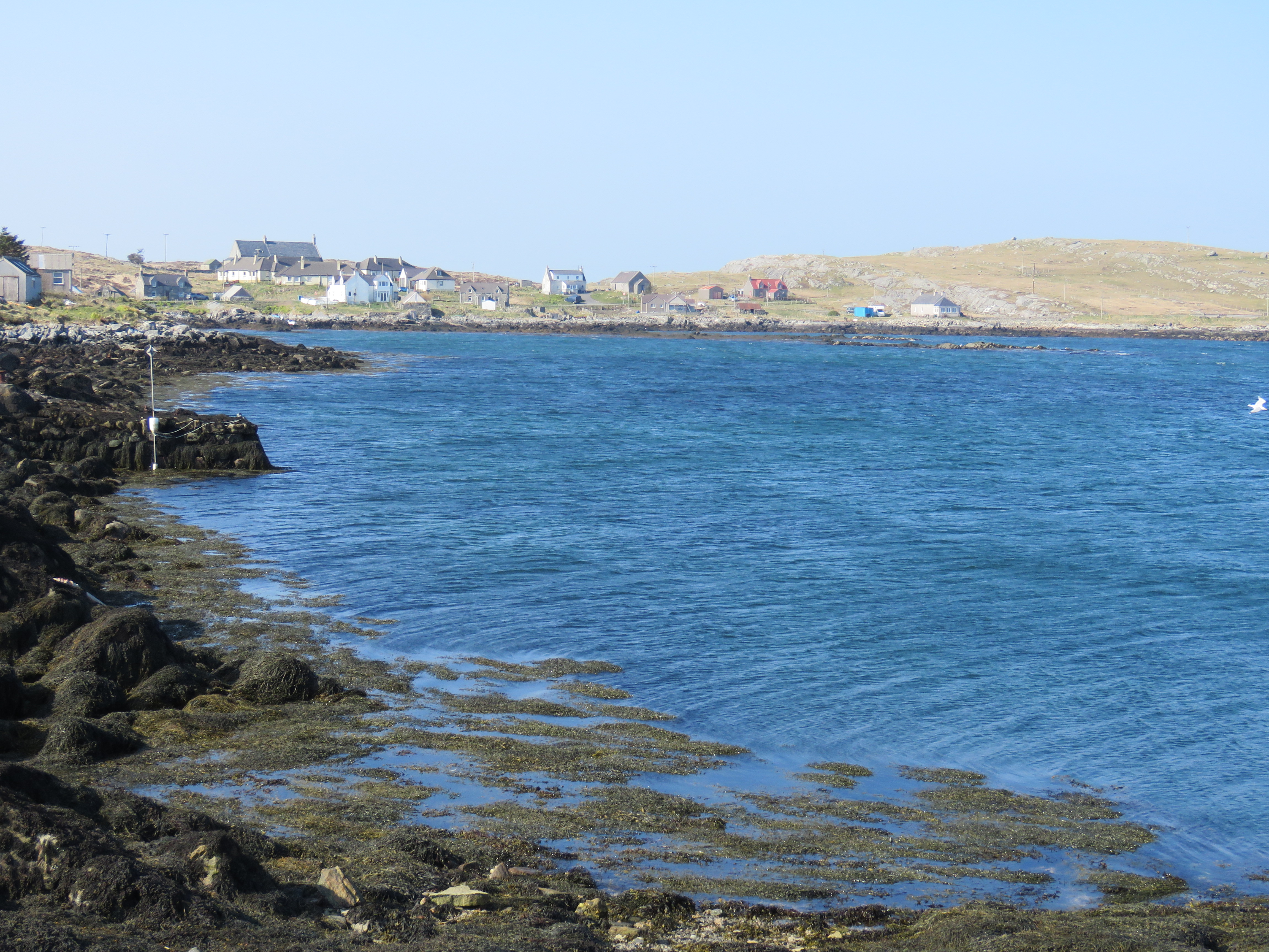 Berneray, village & coastline from the harbour